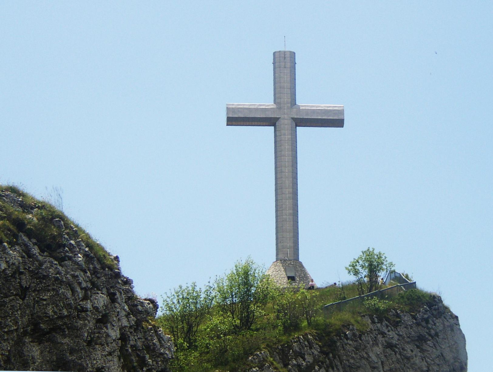 The Croix du Nivolet over Chambéry in Savoie, France.